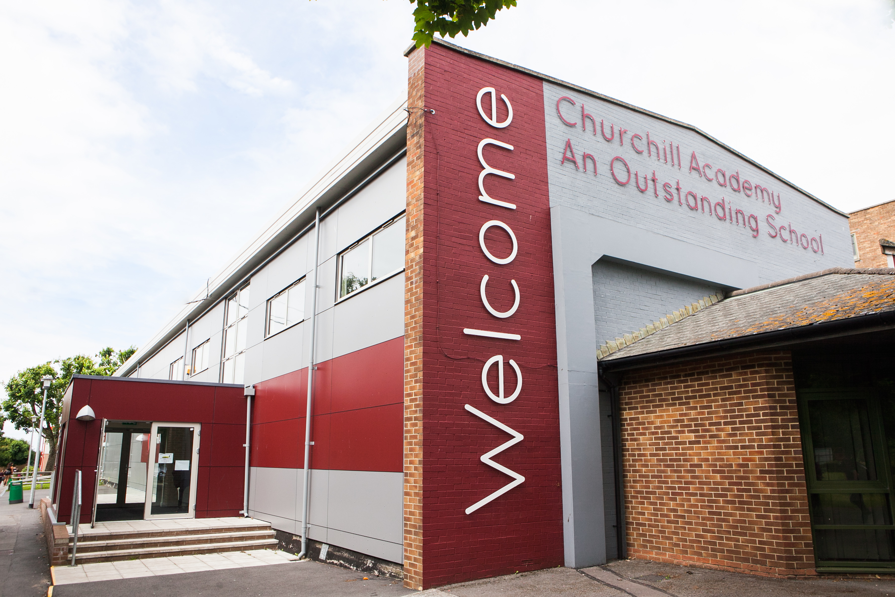 Exterior shot of the front of Churchill Academy & Sixth Form